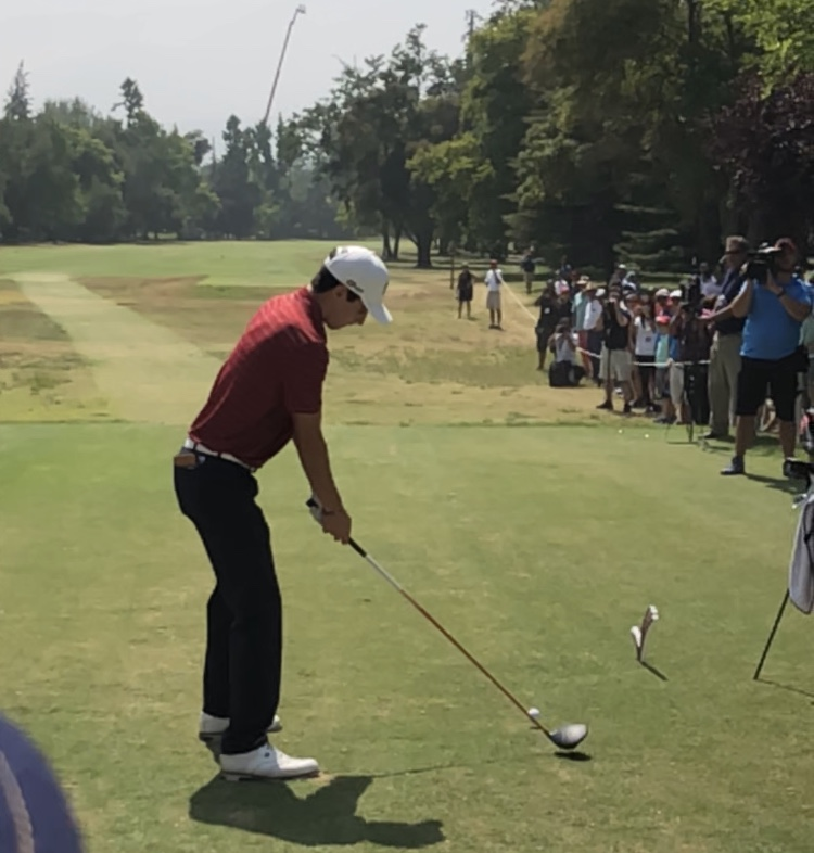 NIemann at the final round of the 20017 LAAC